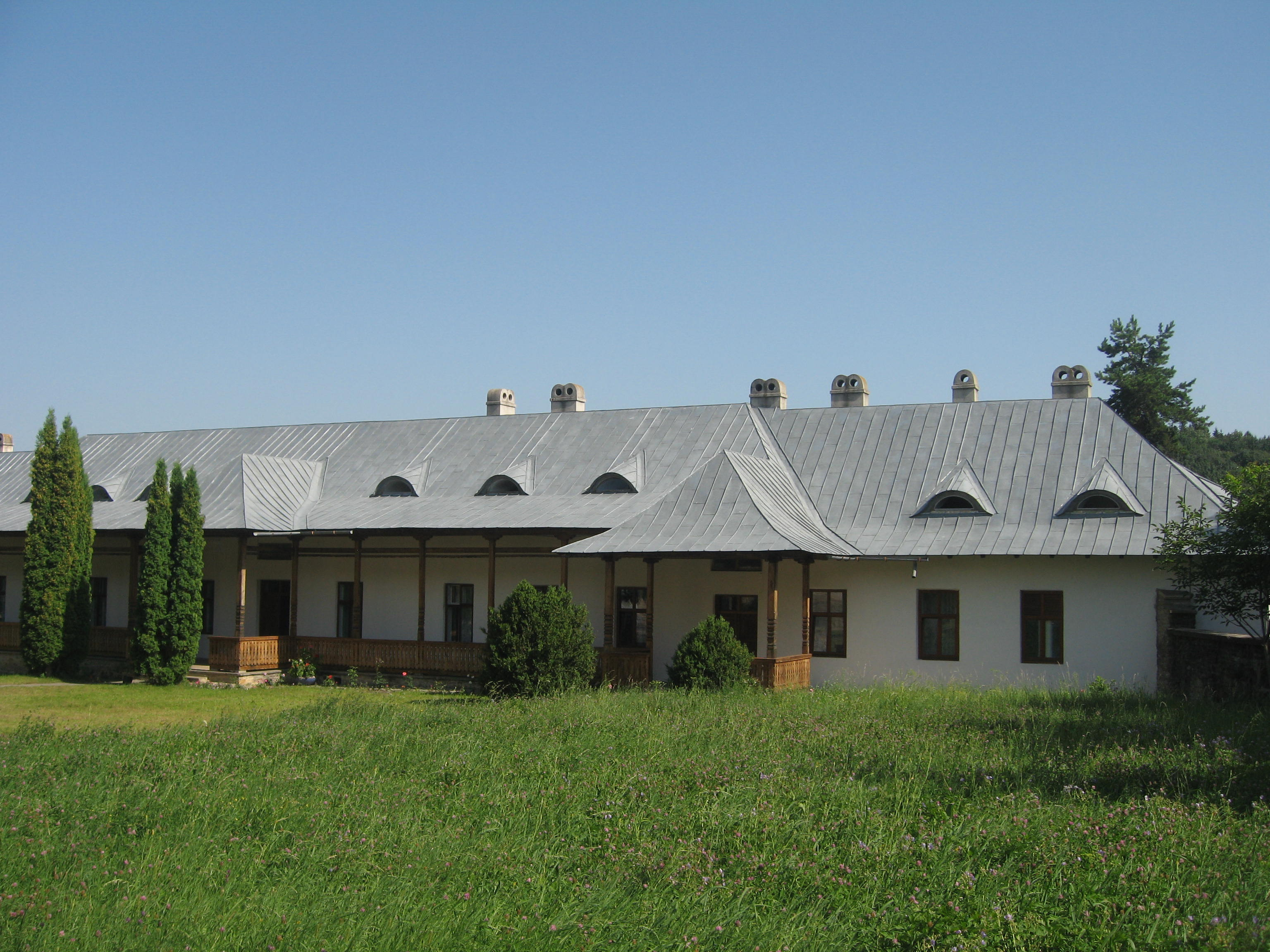 St. John the New Monastery in Suceava - the monastery cells.